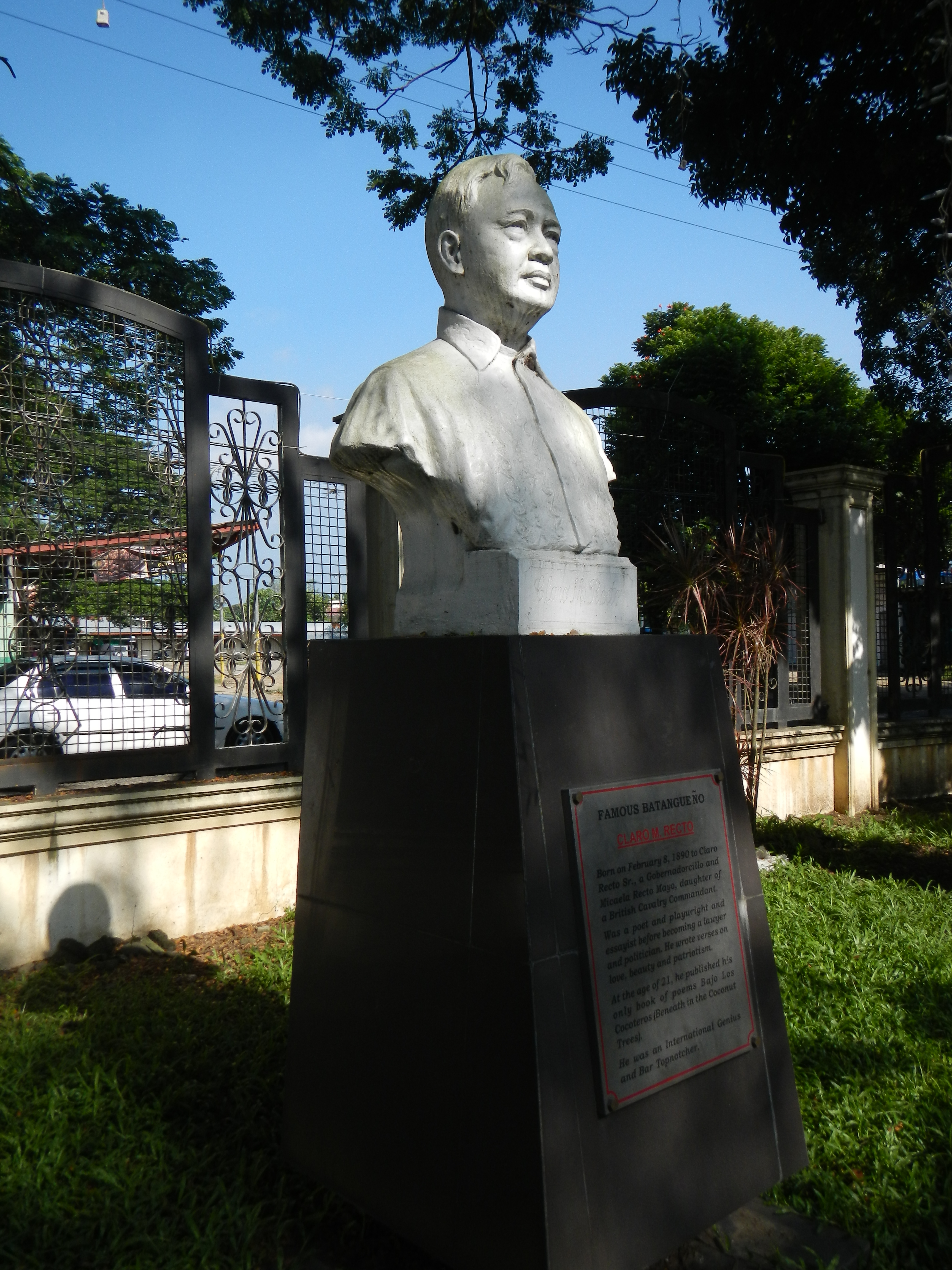 Upload Wizard photos -- (general description of landmarkds, town, church) -Historical Park and Laurel Park - (man-made parks at the Provincial Capitol Complex in Barangay Kumintang Ibaba - with a Multi-Purpose Center used as basketball court, volleyball court and dormitory, for a seminar and meeting venues; the sculpture work entitled "Diwa ng Batangeuno" done in bronze/steel by Ed Castrillo portrays the vitues of the Batanguenos such as nobility, industriousness, beauty and wisdom[1]) - Monuments, Busts of - Maria Orosa[2] Maria Orosa e Ylagan; Claro M. Recto[3]; Dr. Baldomero Roxas [4]; Feliciano Leviste[5]; Dr. Deogracias V. Villadolid - Profiles of Filipino Fisheries Scientists - University of the Philippines Los Baños Limnological Research Station[6]; Jose Diokno[7] - at the - Batangas [8] Provincial Capitol [9] Coordinates: 13°45'55"N 121°3'50"E Batangas City (the largest and capital city of the Province of Batangas, the "Industrial Port City of Calabarzon", 2010 census, the city has a population of 305,607 people).